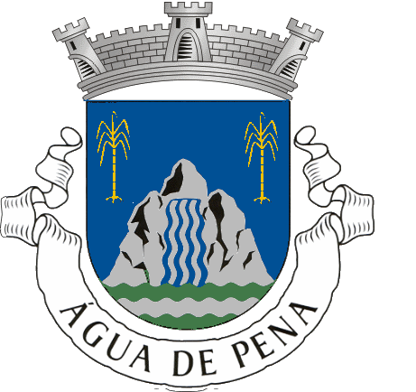 Coat of Arms of freguesia of Água de Pena, Machico, Madeira Island.